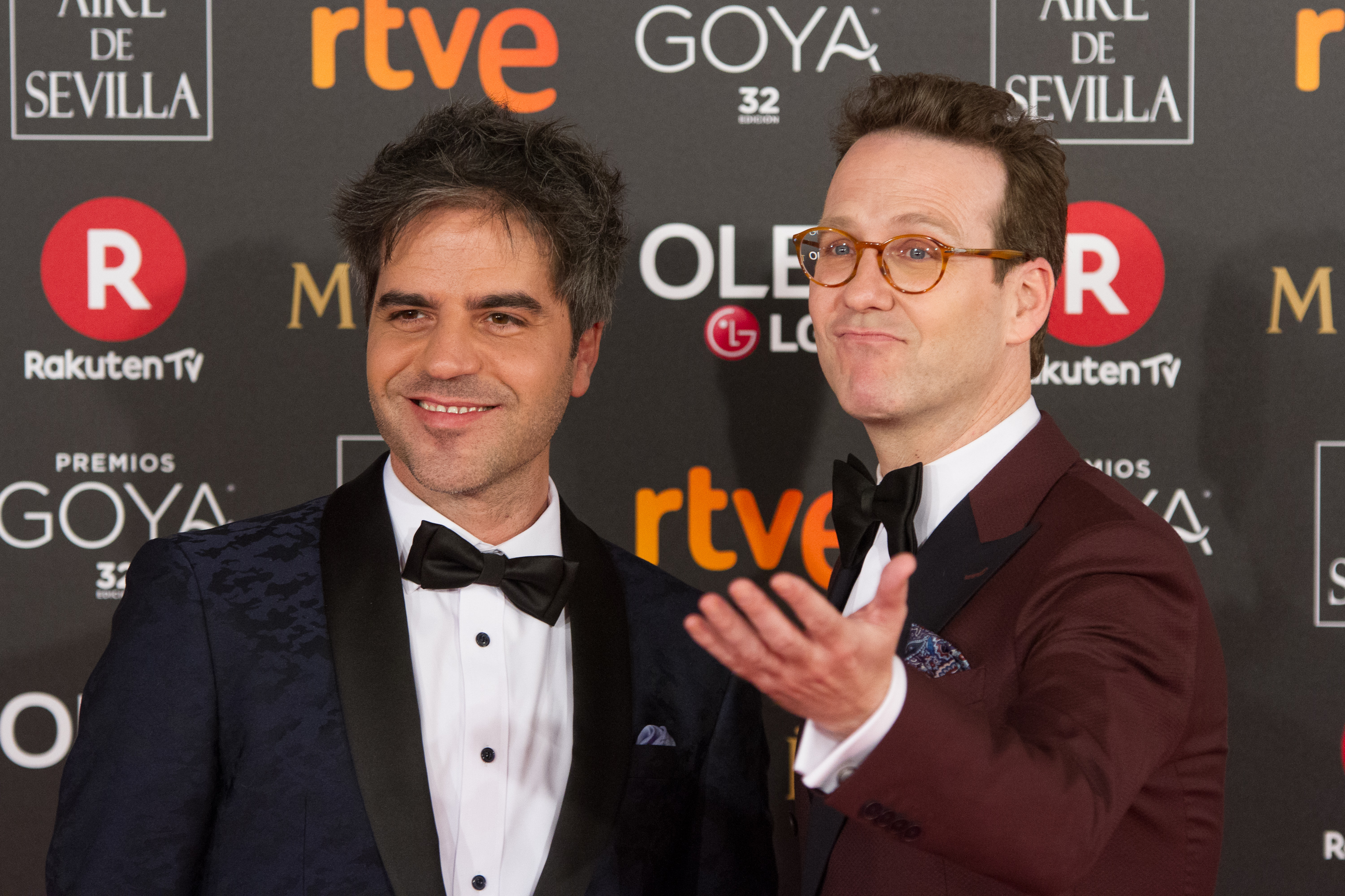 32nd Goya Awards, 2018.